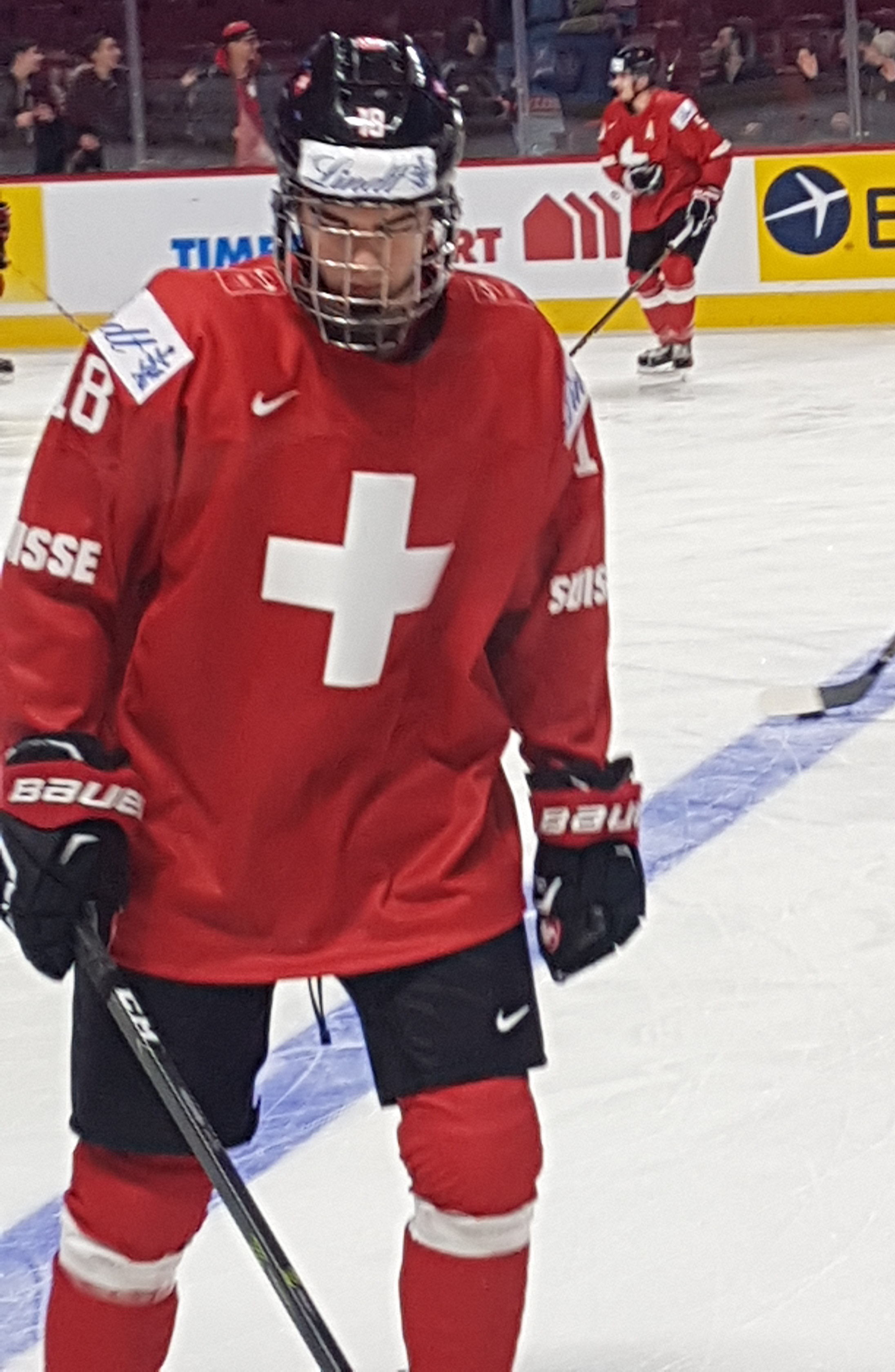 Nico Hischier playing for Switzerland against the Czech Republic at the 2017 World Junior Ice Hockey Championships